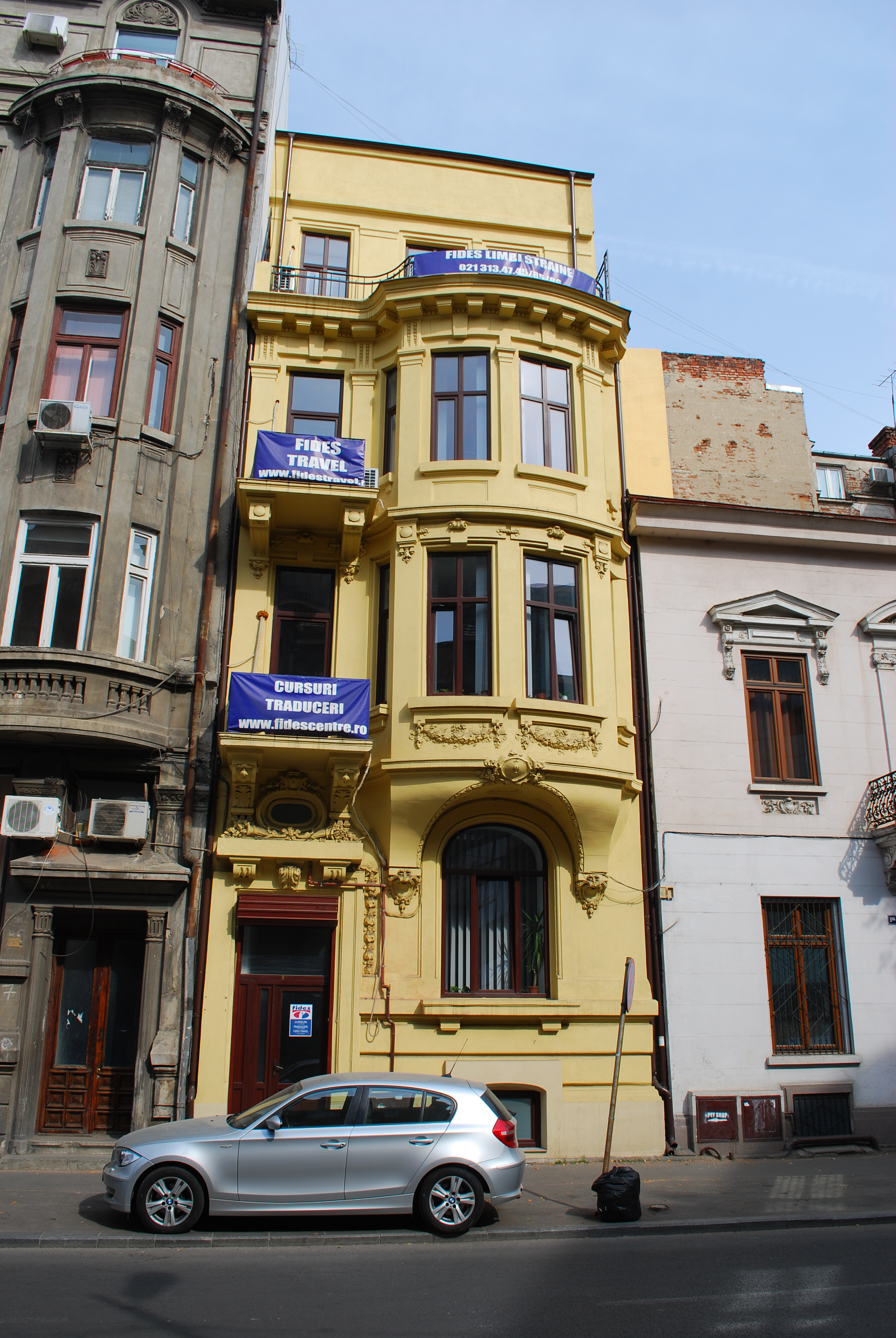 Historic building on Hristo Botev 9, Bucharest, Romania